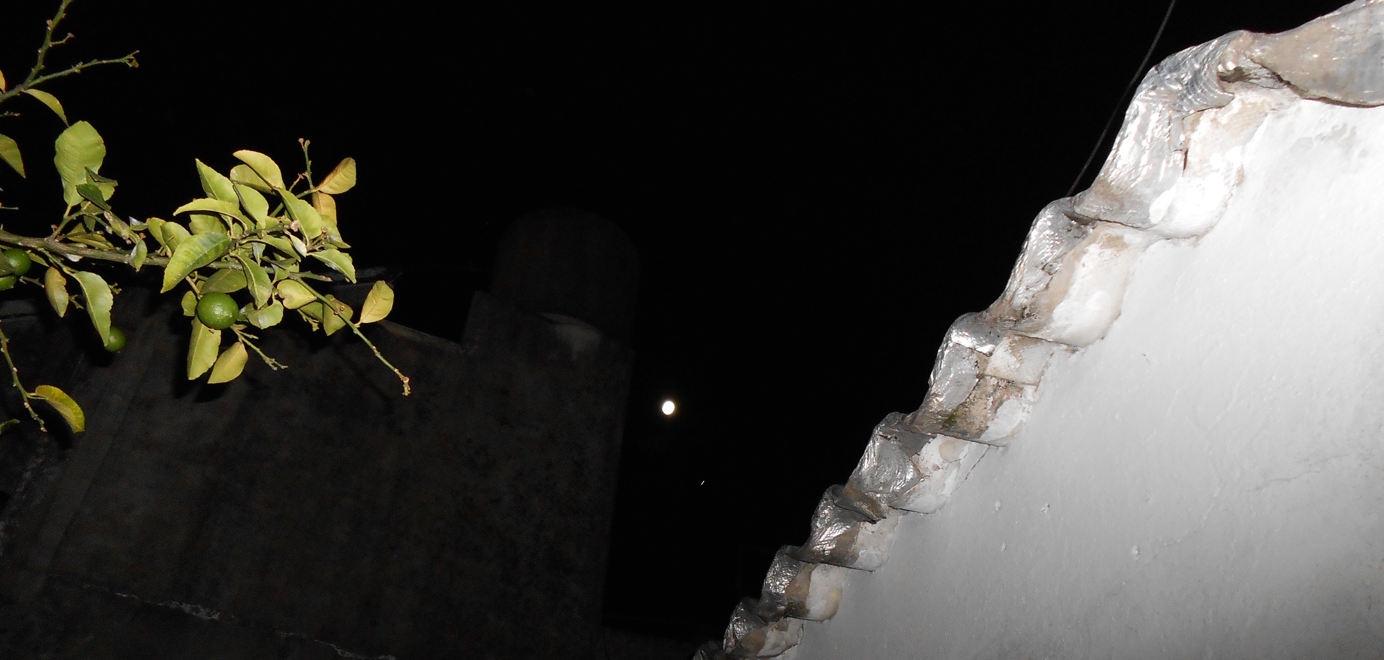 The Moon and Jupiter (bottom right) on january 8, 2015.